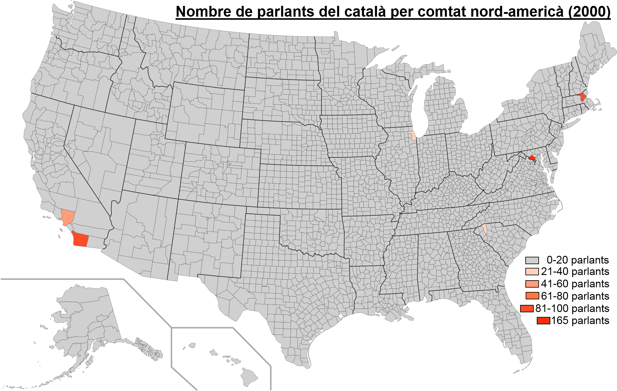 Number of speakers of the Catalan language in each U.S. county according to 2000 United States Census.